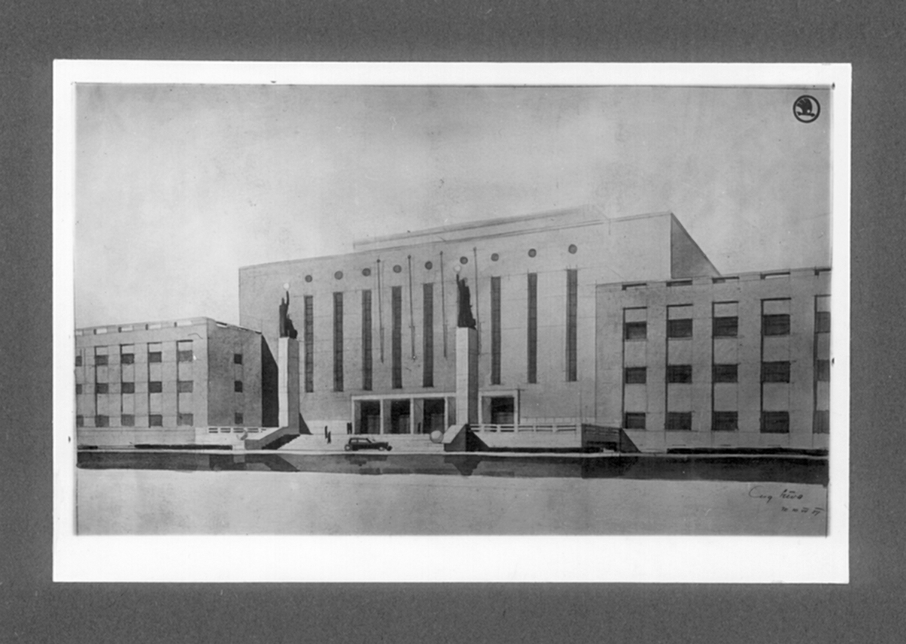 Photocopy of the design for S.I.Skoda by S.Suva